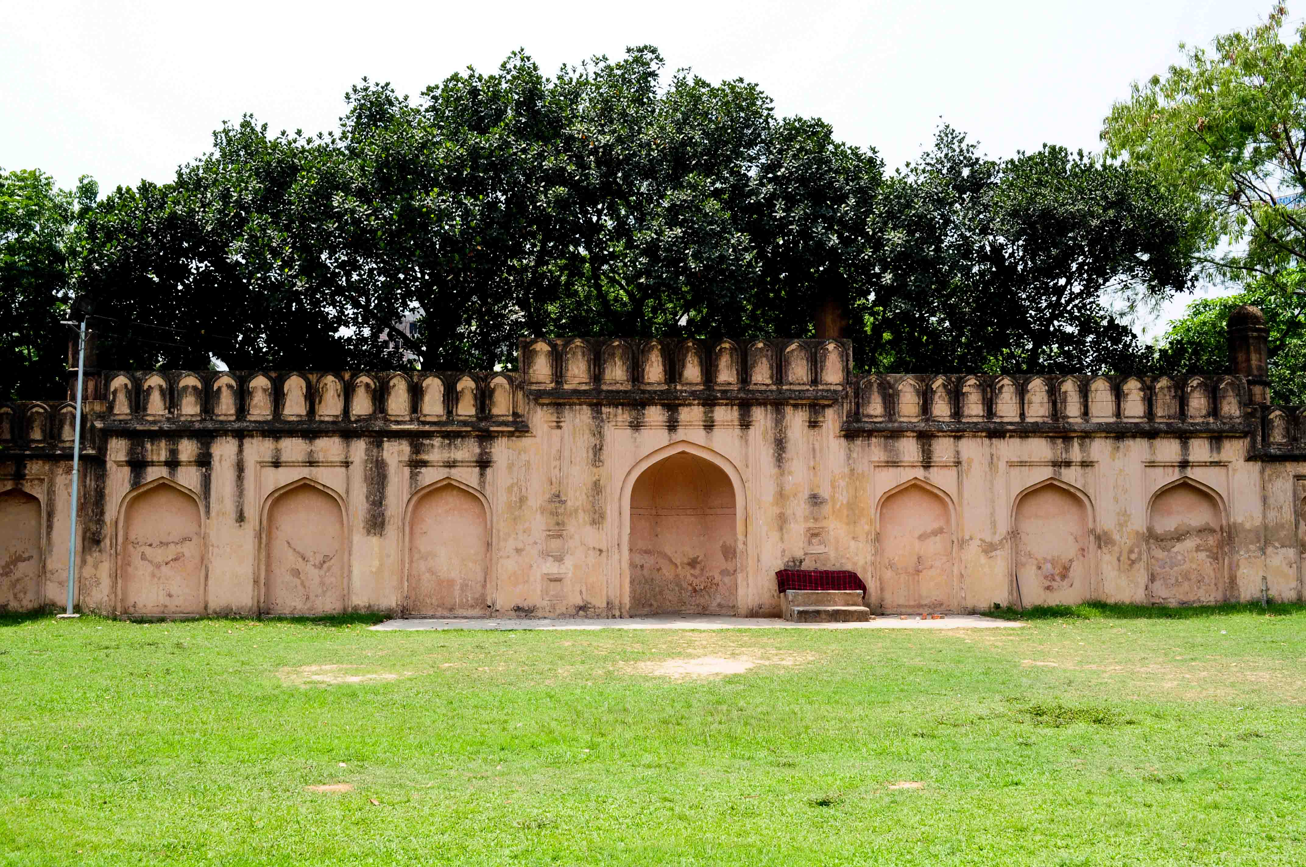 Where Emam used to stand while praying.